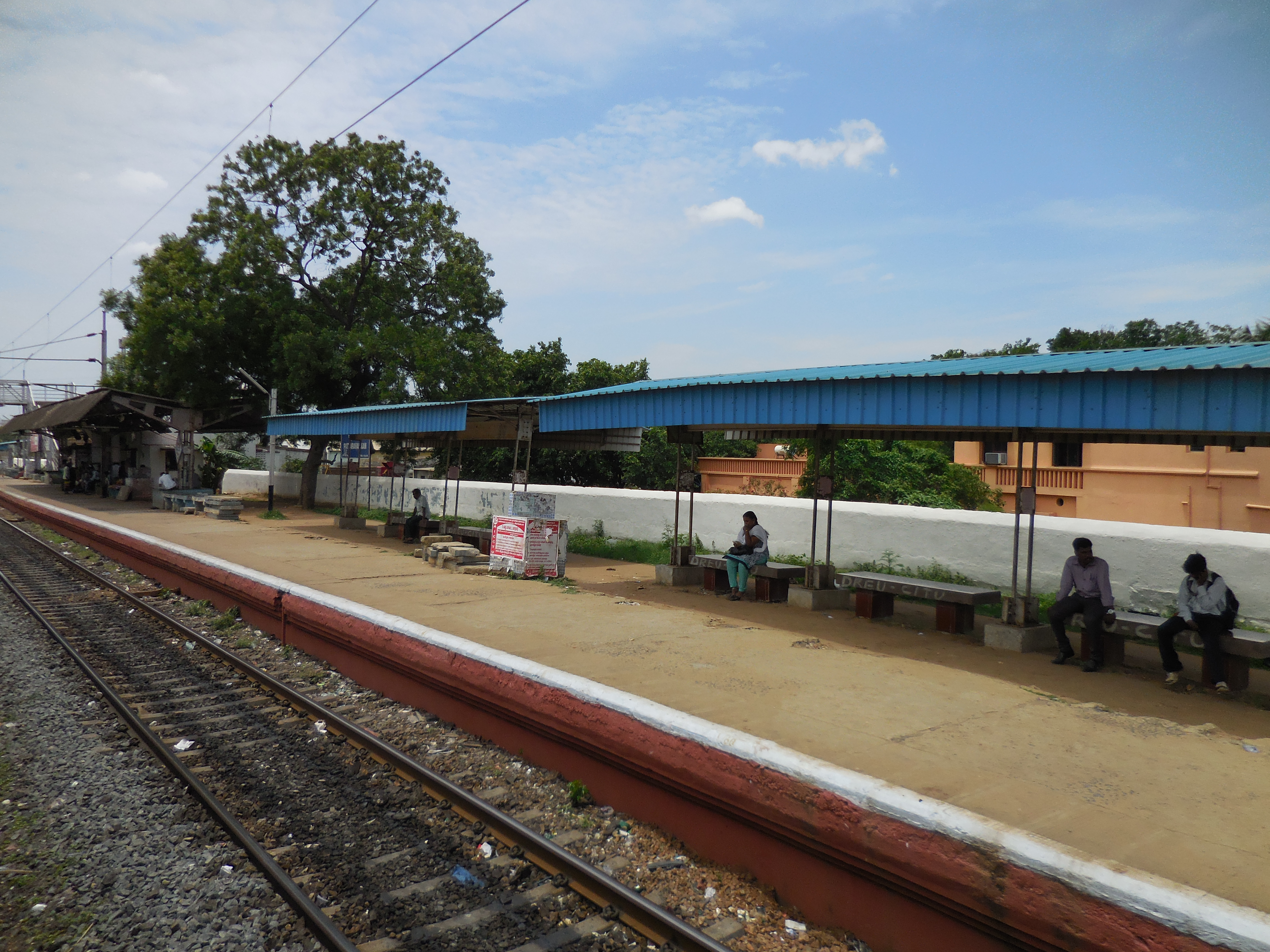 A view of Pattaravakkam Station, Chennai, towards east, taken on 15 July 2014 at noon.